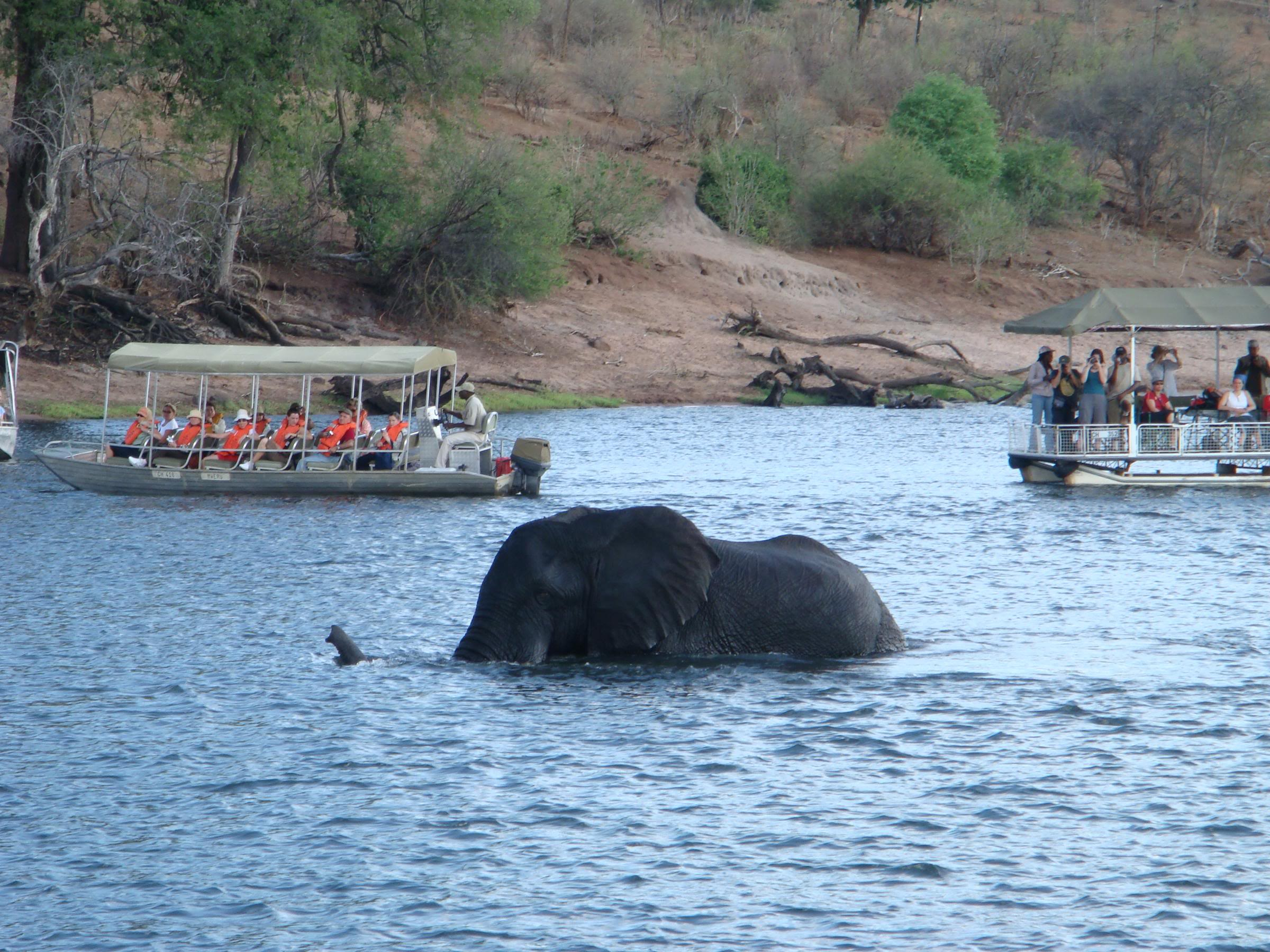 Like all mammals (except humans and apes, who have to learn how to swim), elephants are very good, untiring swimmers. Elephants move all four legs to swim and are able to move quite fast like that. Their big body provides enough flotation while the trunk acts like a snorkel. [